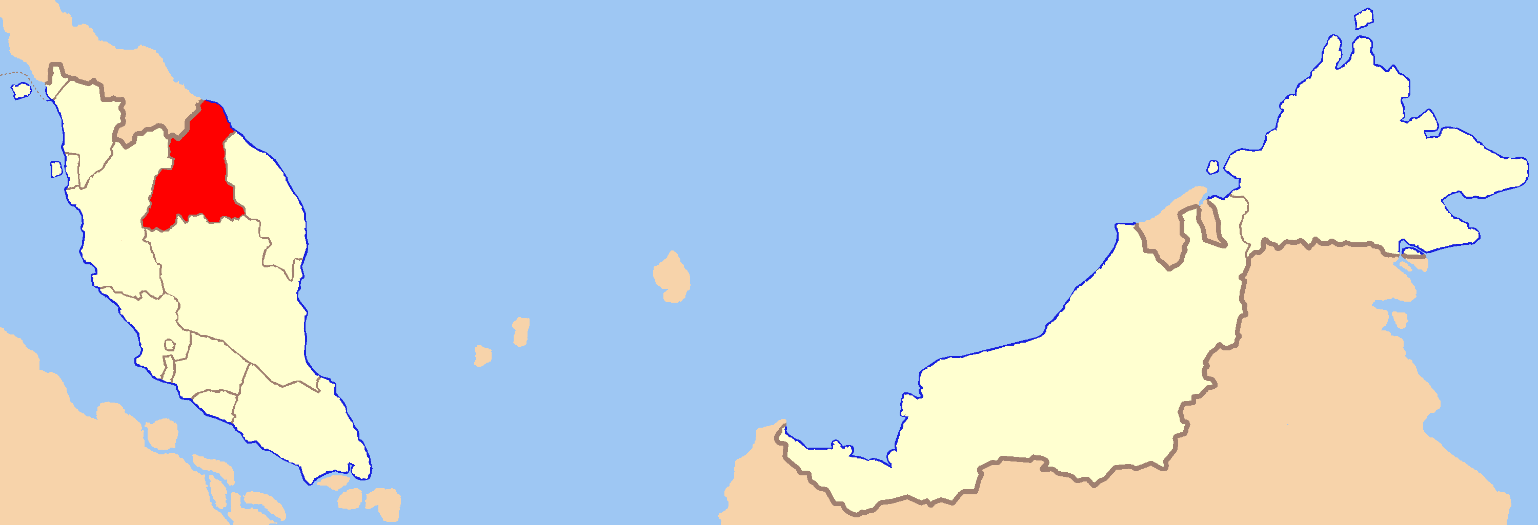 Maps of Southeast Asia with Kelantan highlighted